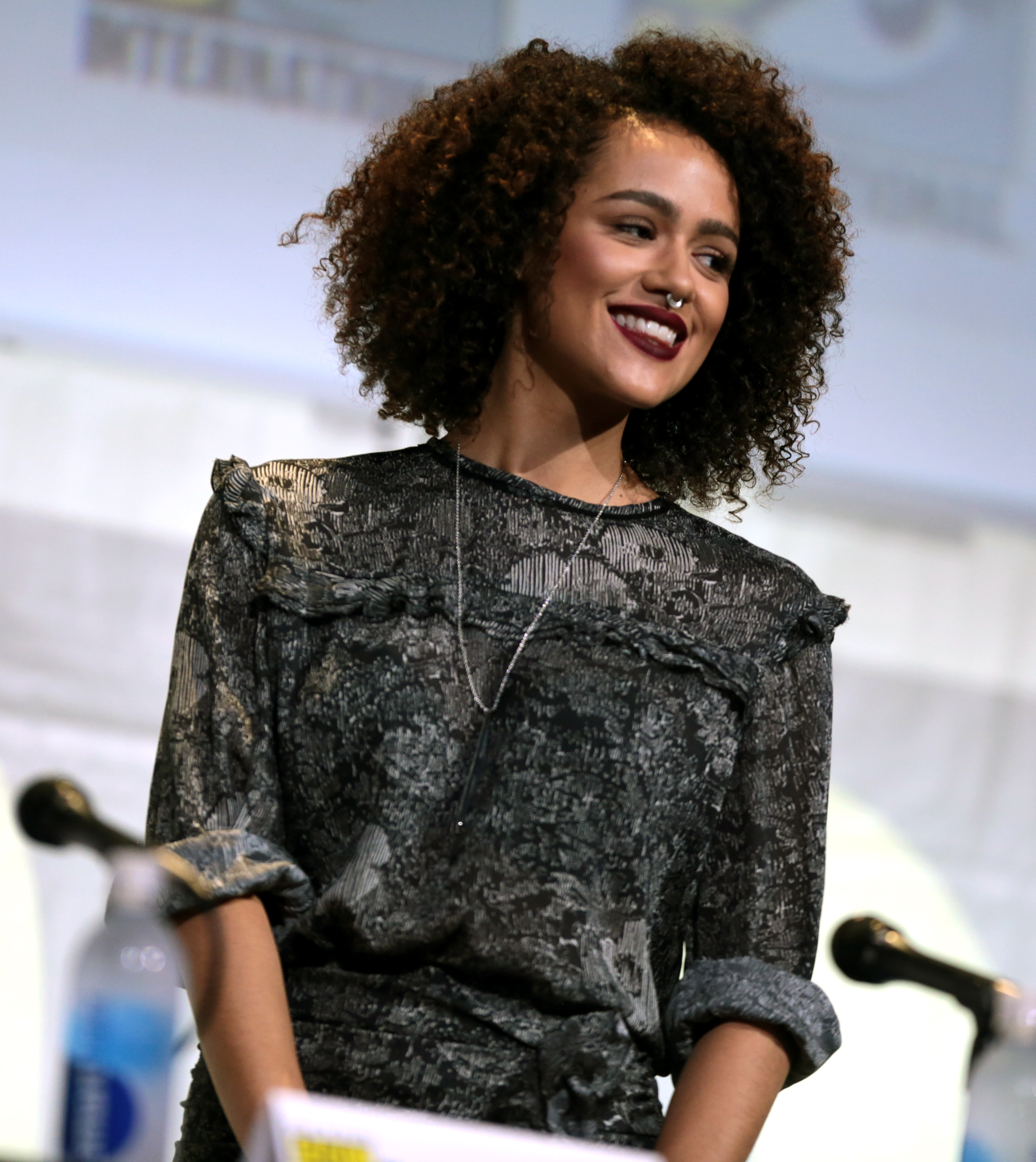 Nathalie Emmanuel speaking at the 2016 San Diego Comic Con International, for "Entertainment Weekly: Women Who Kick Ass", at the San Diego Convention Center in San Diego, California.